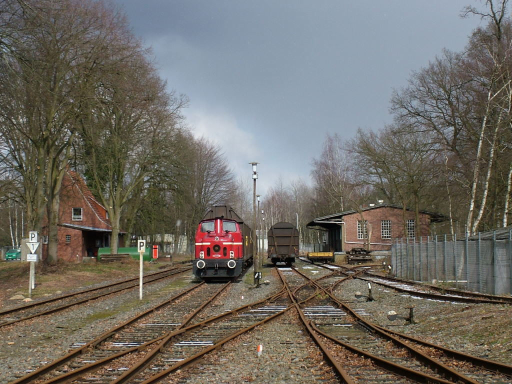 railway station Vormeppen of the former "Meppen-Haseluenner Eisenbahn" (today "Emslaendische Eisenbahn"), 2005-02-27